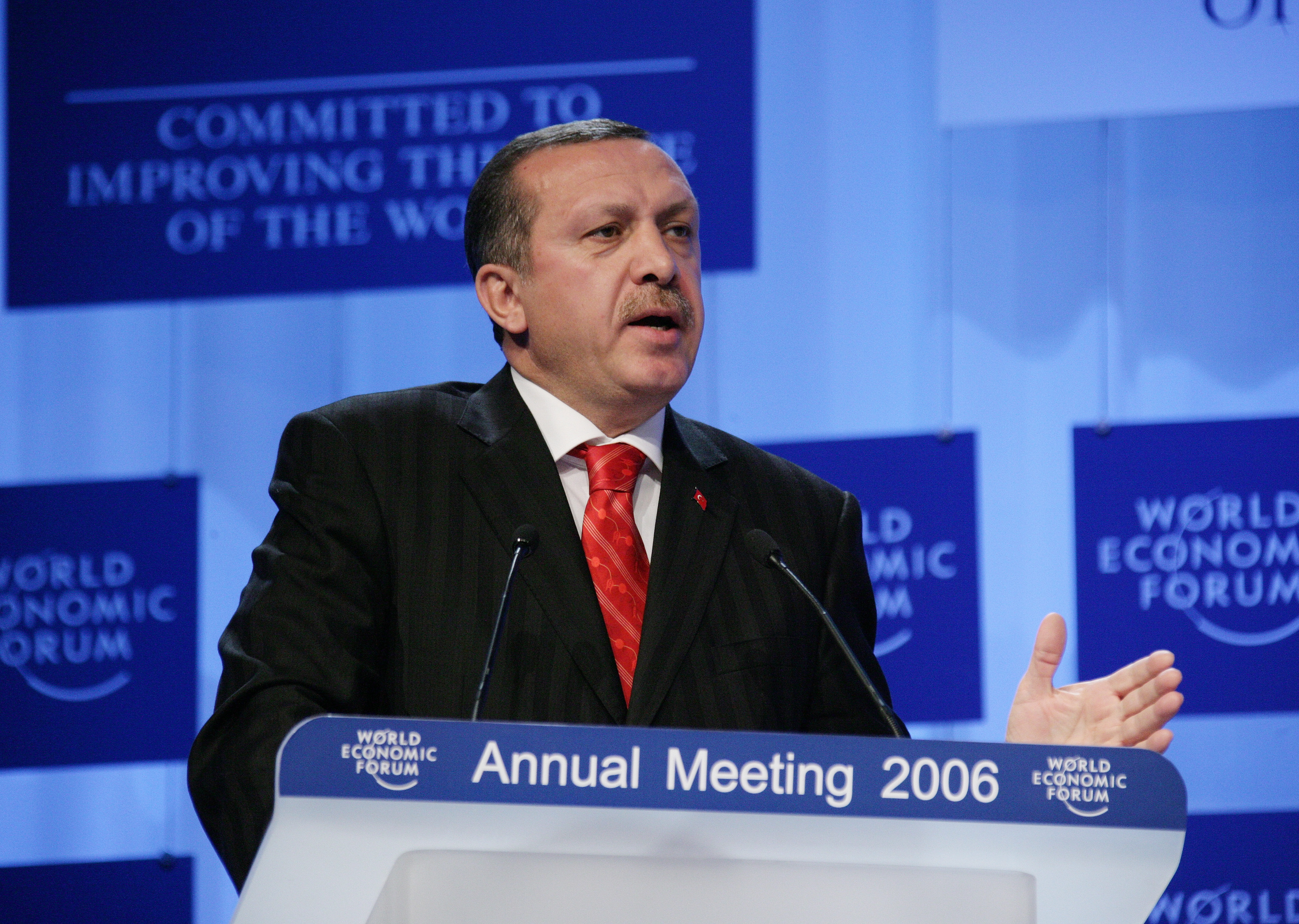 DAVOS/SWITZERLAND, 27JAN06 - Recep Tayyip Erdogan, Prime Minister of Turkey captured during the session 'The New Comparative Advantages' at the Annual Meeting 2006 of the World Economic Forum in Davos, Switzerland, January 27, 2006. Copyright by World Economic Forum by E.T. Studhalter